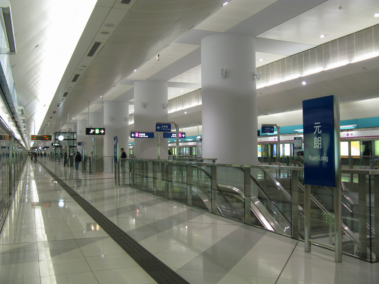 West Rail Line Platform of Yuen Long Station